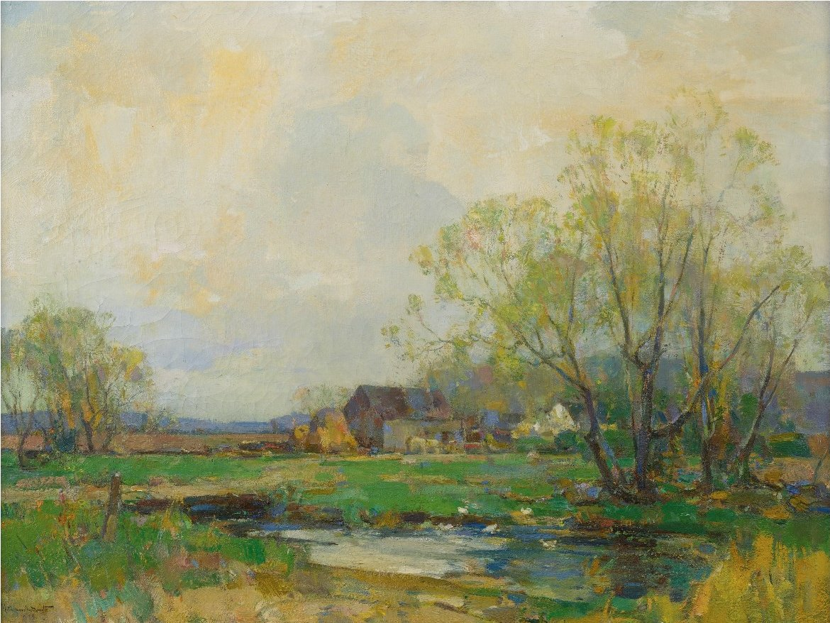 Spring Time by Walter Granville-Smith, oil on canvas, 30 by 40 in.